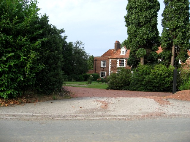 The Driveway To Portington Hall, Portington, East Riding of Yorkshire, England.Including a pile of spare gravel.